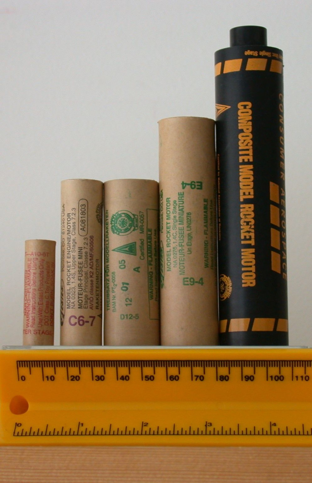 Several model rocket motors, with a ruler in both English and Metric for scale.